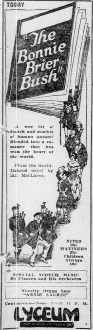 American newspaper advertisement for the British drama film The Bonnie Brier Bush (1921), ad consists of drawing and does not include any stills from the film, on page 15 of the January 17, 1922 Duluth Herald.